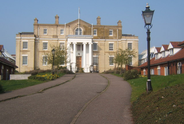 Anglesea Heights nursing home The home overlooks the length of the High Street heading down towards the centre of Ipswich.